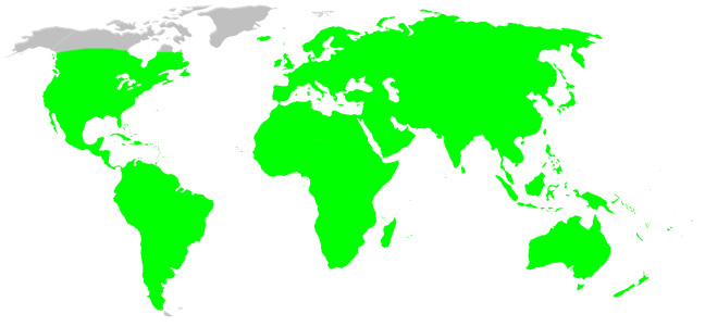 Nesticidae habitat distribution, drawn after Platnick: World Spider Catalog 7.0. This is not a precise rendering of the distribution! If you have better information, please replace this map, or send me the info, and i will redraw it.